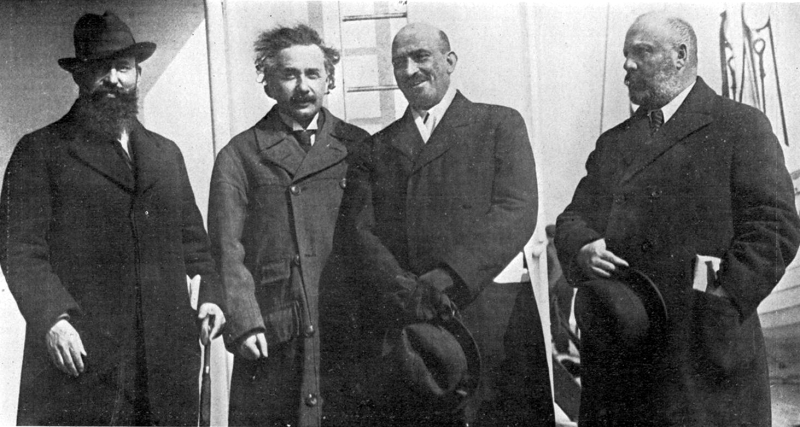 Albert Einstein and "leaders of the World Zionist Organization" published in the USA in 1921. Also pictured are Chaim Weizmann, Menachem Ussishkin and Ben-Zion Mossinson (headmaster of the Herzliya Hebrew Gymnasium) onboard SS Rotterdam (1908).